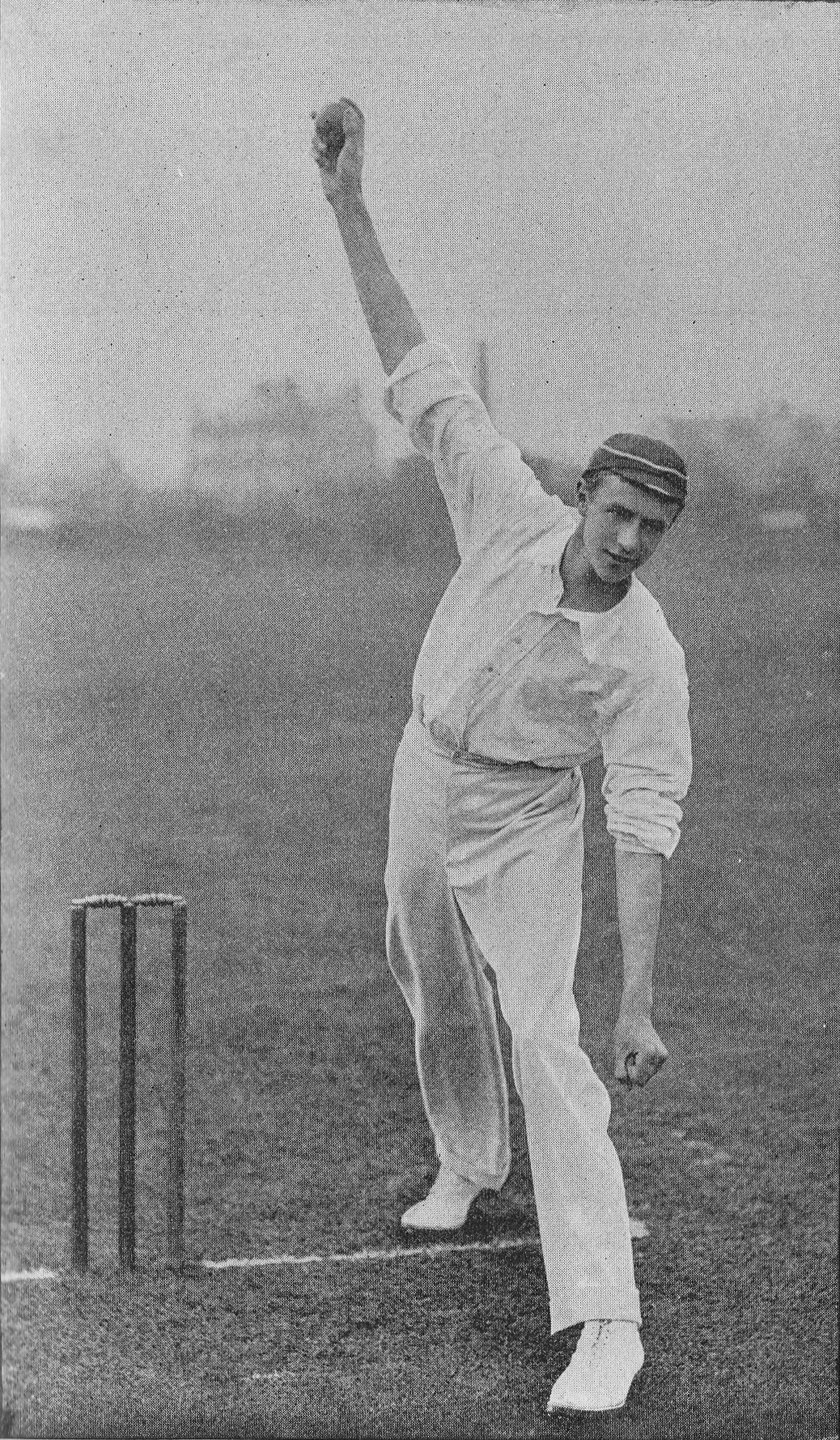 "Townsend delivering the ball"